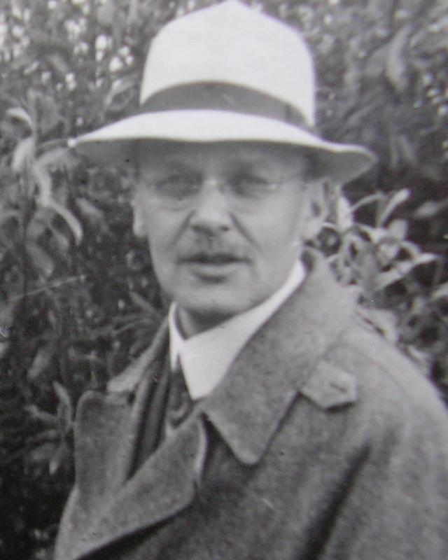 Physicist Hans Geiger, 1928